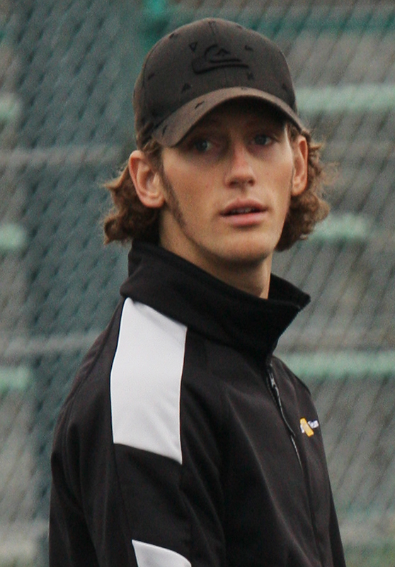 Formula One 2009 Rd.15 Japanese GP: Romain Grosjean (Renault) on Thursday.